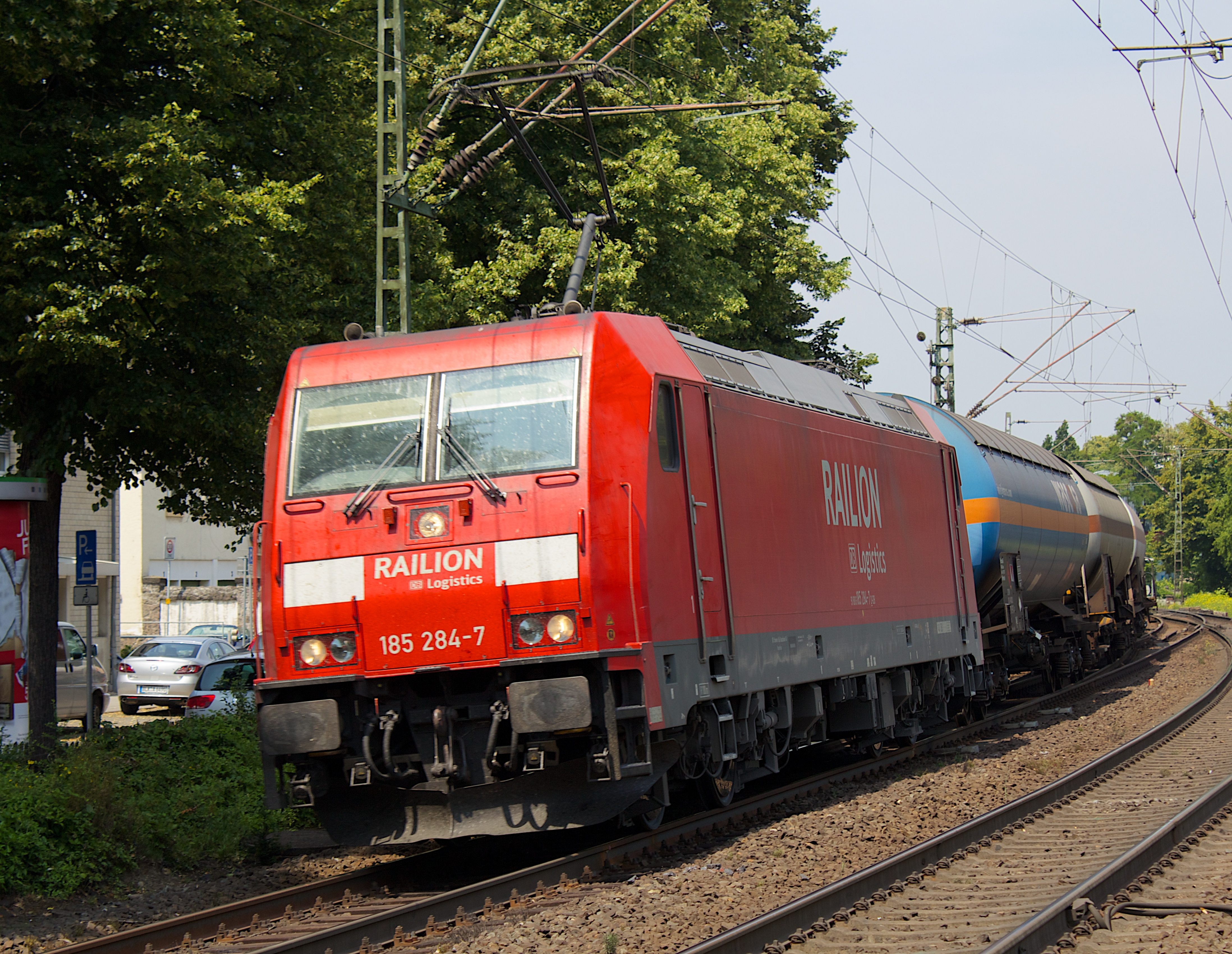 185 284-7 with a goods train near Königswinter.